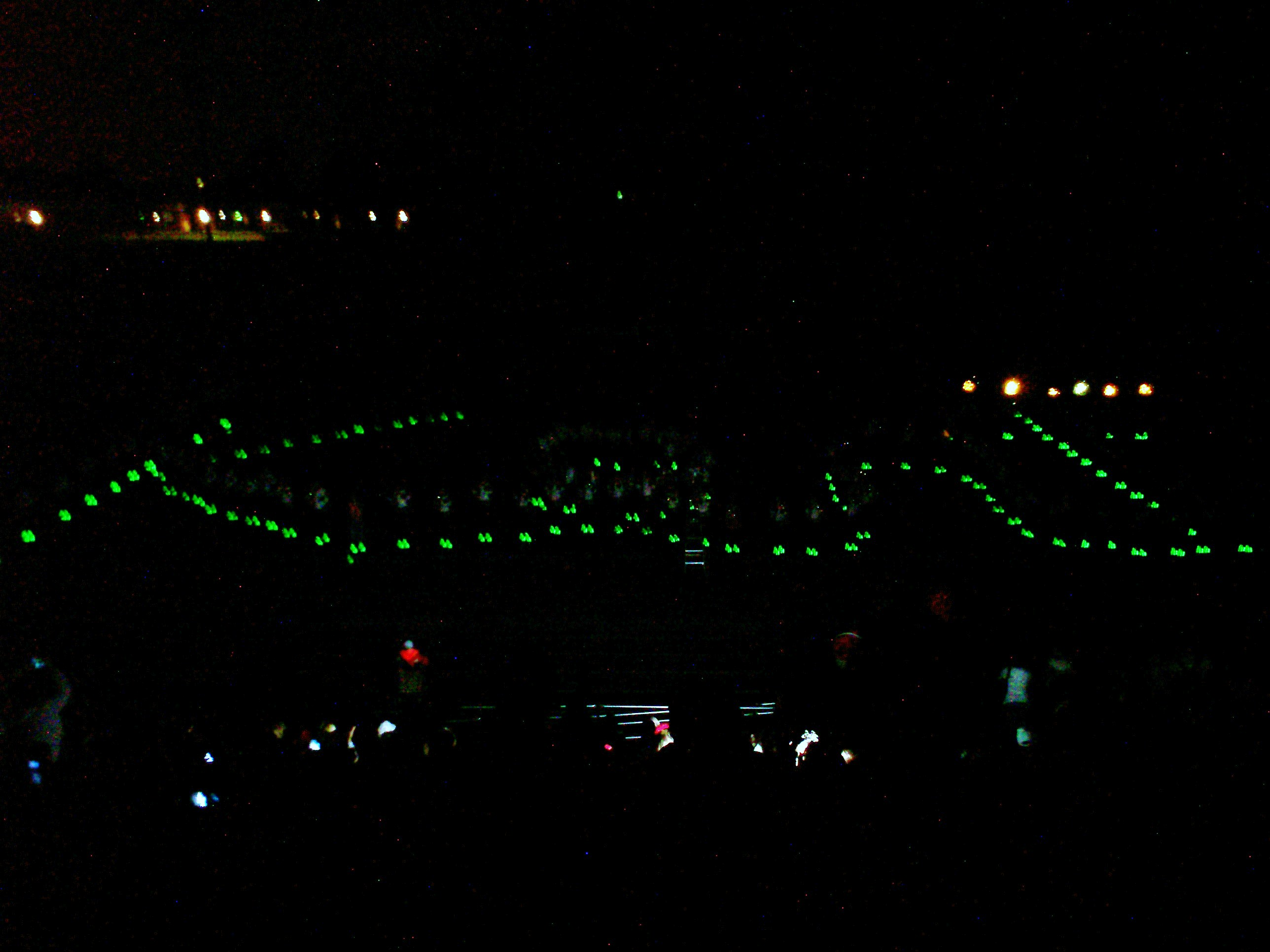 End of a performance of "Script Kent" by the Rough Rider marching band of Theodore Roosevelt High School in Kent, Ohio following the final home football game of the regular season. The formation is similar to "Script Ohio" at The Ohio State University, but is performed in the dark. Band members spell out "Kent" with green glow sticks on their ankles while marching to Le Régiment de Sambre et Meuse by Robert Planquette.